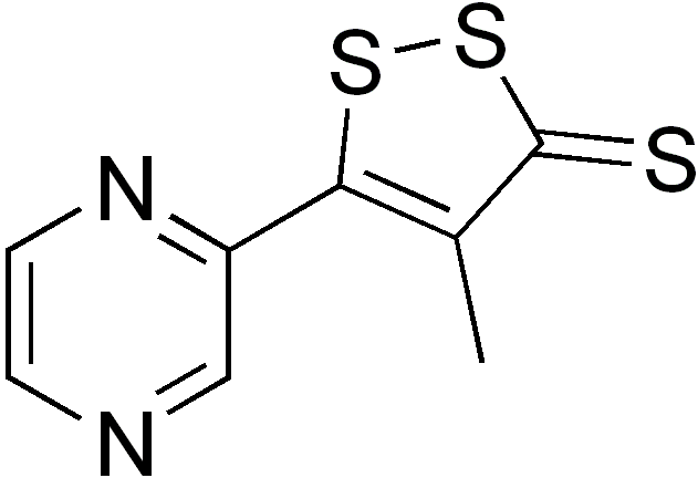 chemical structure of Oltipraz